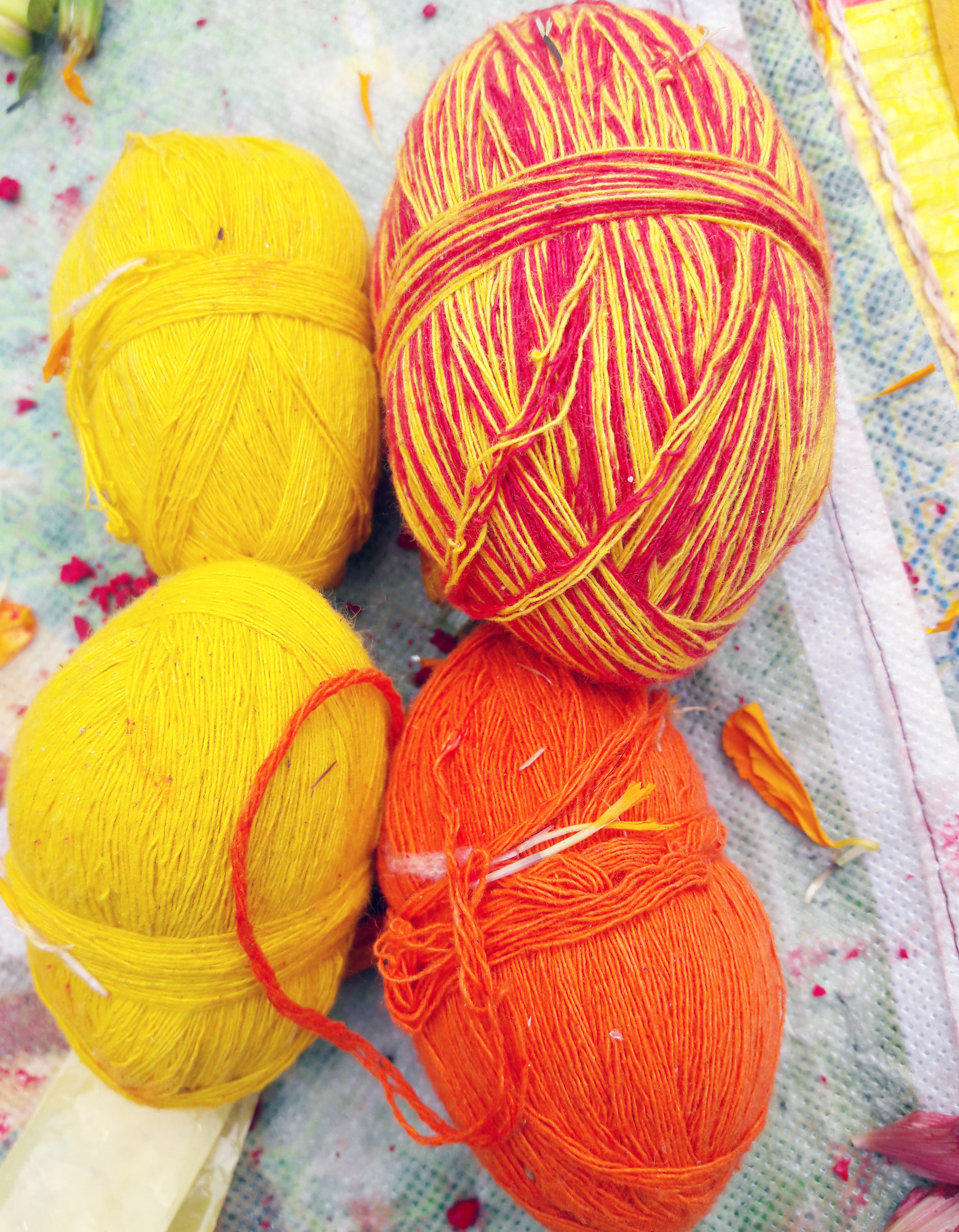 Doro , Nepal